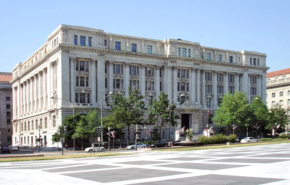 John A. Wilson Building on Pennsylvania Avenue in Northwest Washington, D.C.. It houses the offices and chambers of the Mayor and Council of the District of Columbia. It was built in 1908 and originally called the District Building.